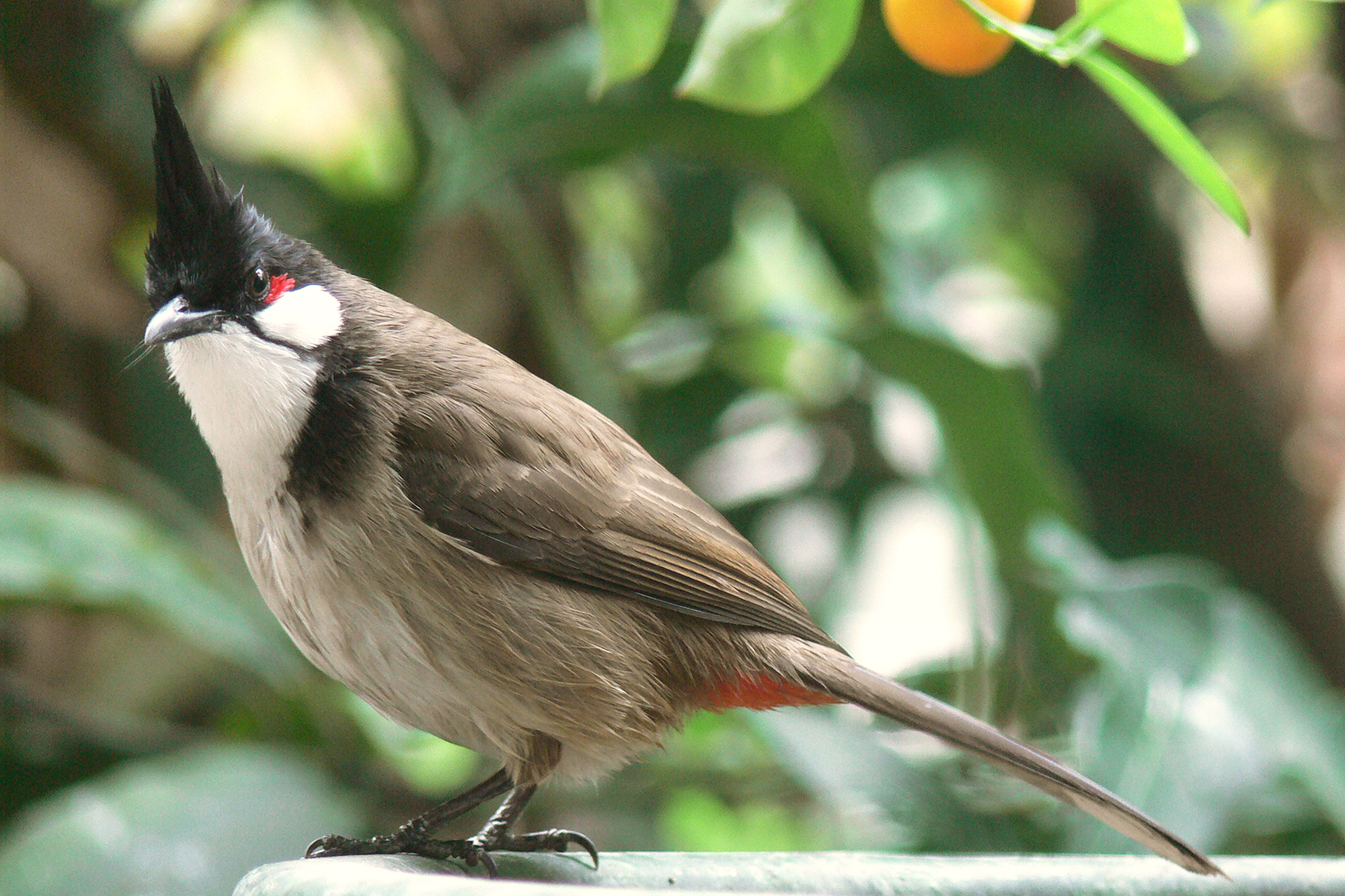 A Red-whiskered Bulbul, in Nanning Guangxi China